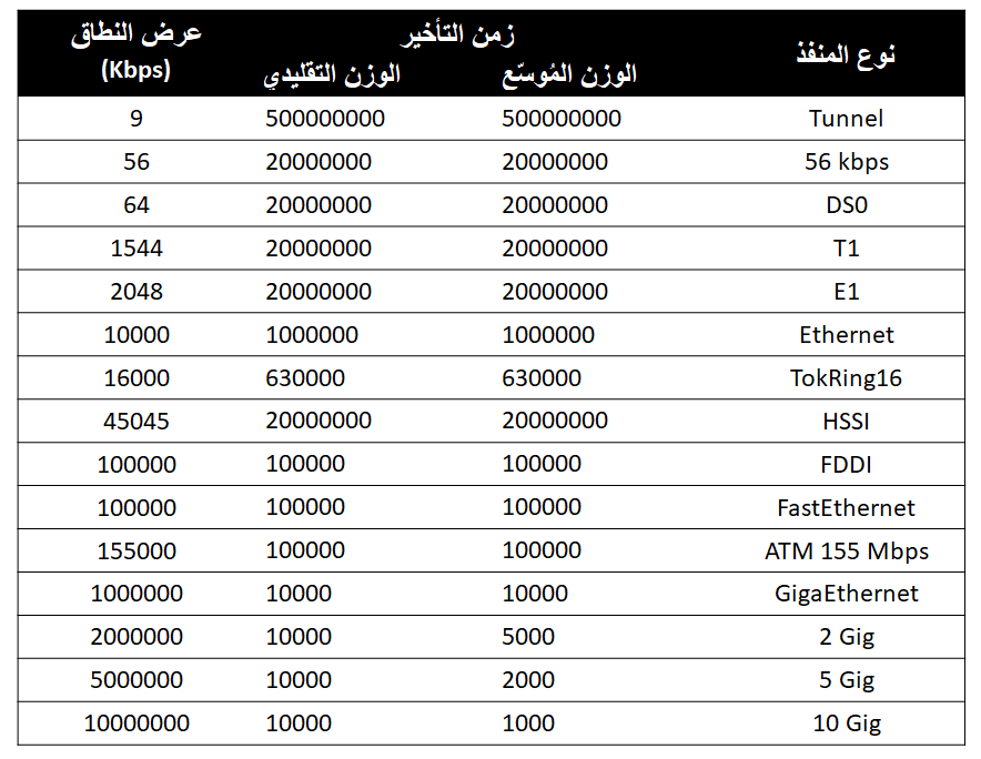 Examples of the values that are used to calculate the metric in EIGRP.